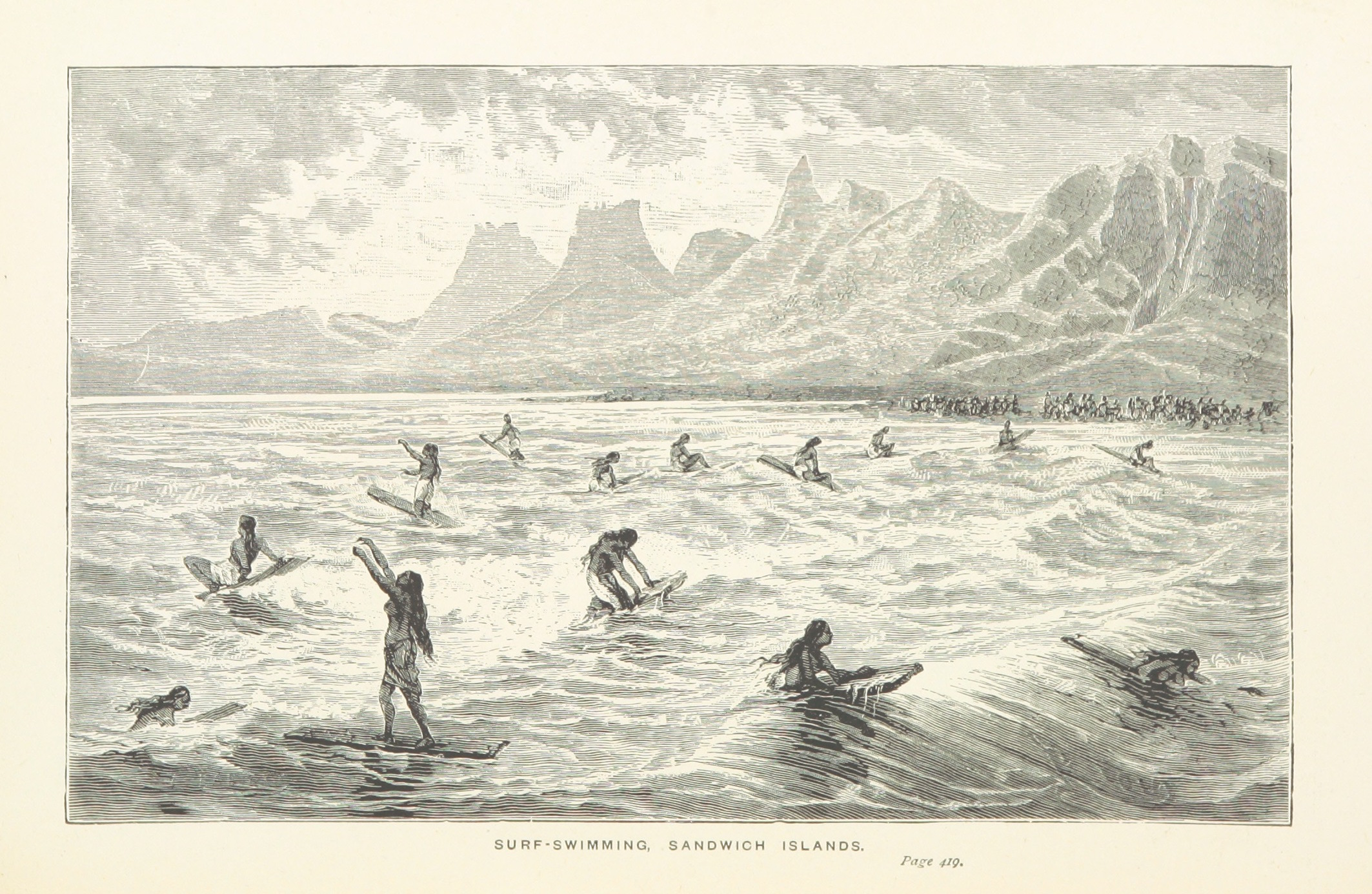 Image taken from page 477 of 'Captain Cook's Voyages round the World. (Slightly abridged.) With an introductory life by M. B. Synge. [With plates.]'